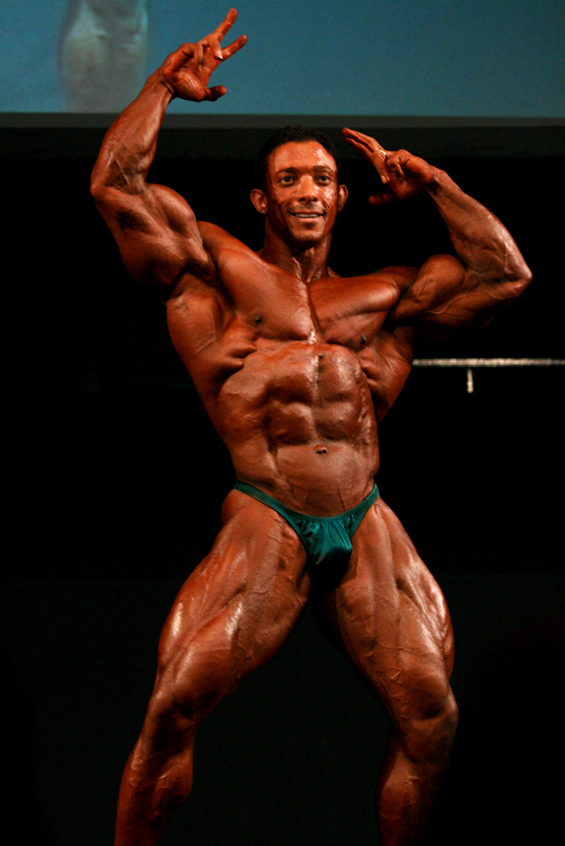 Troy Alves 2008 IFBB Australian Pro Grand Prix VIII